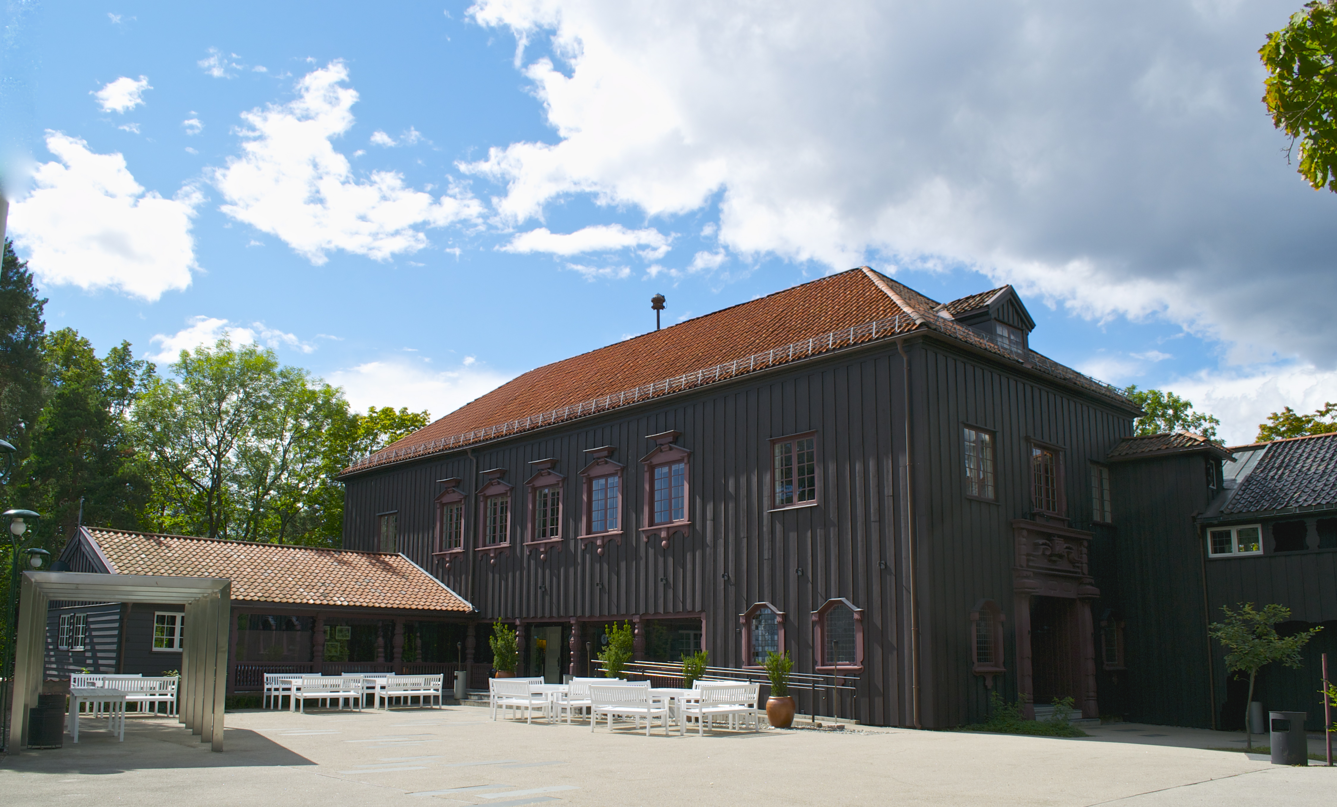 Reception Rooms at the Norwegian Museum of Cultural Heritage